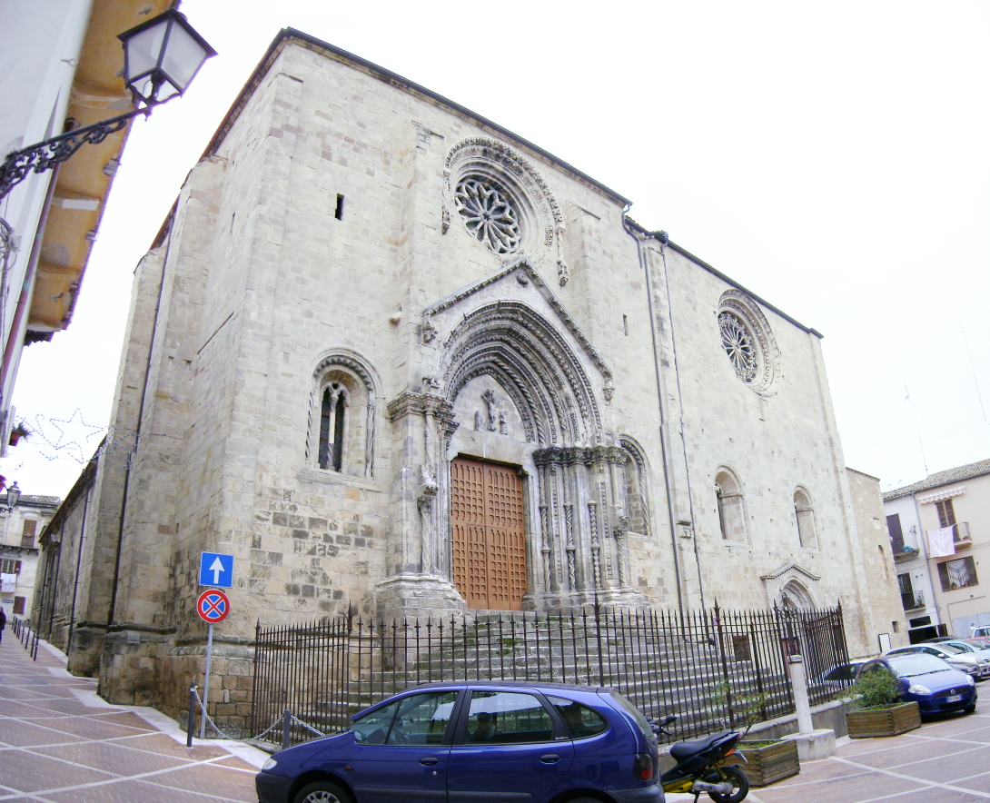 Church of Santa Maria Maggiore, Lanciano, province of Chieti, Abruzzo